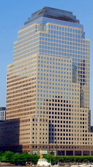 Four World Financial Center, New York